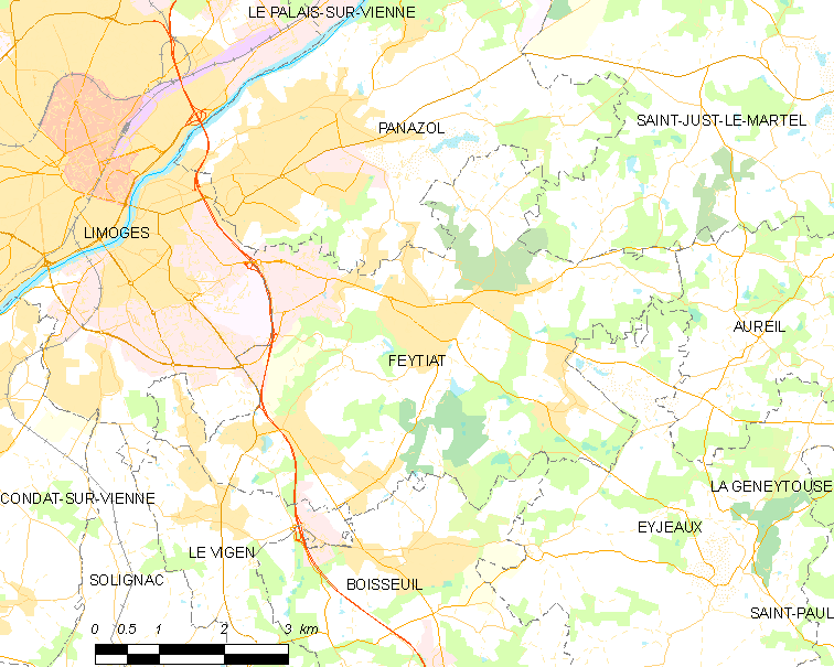 Map of French municipality Feytiat